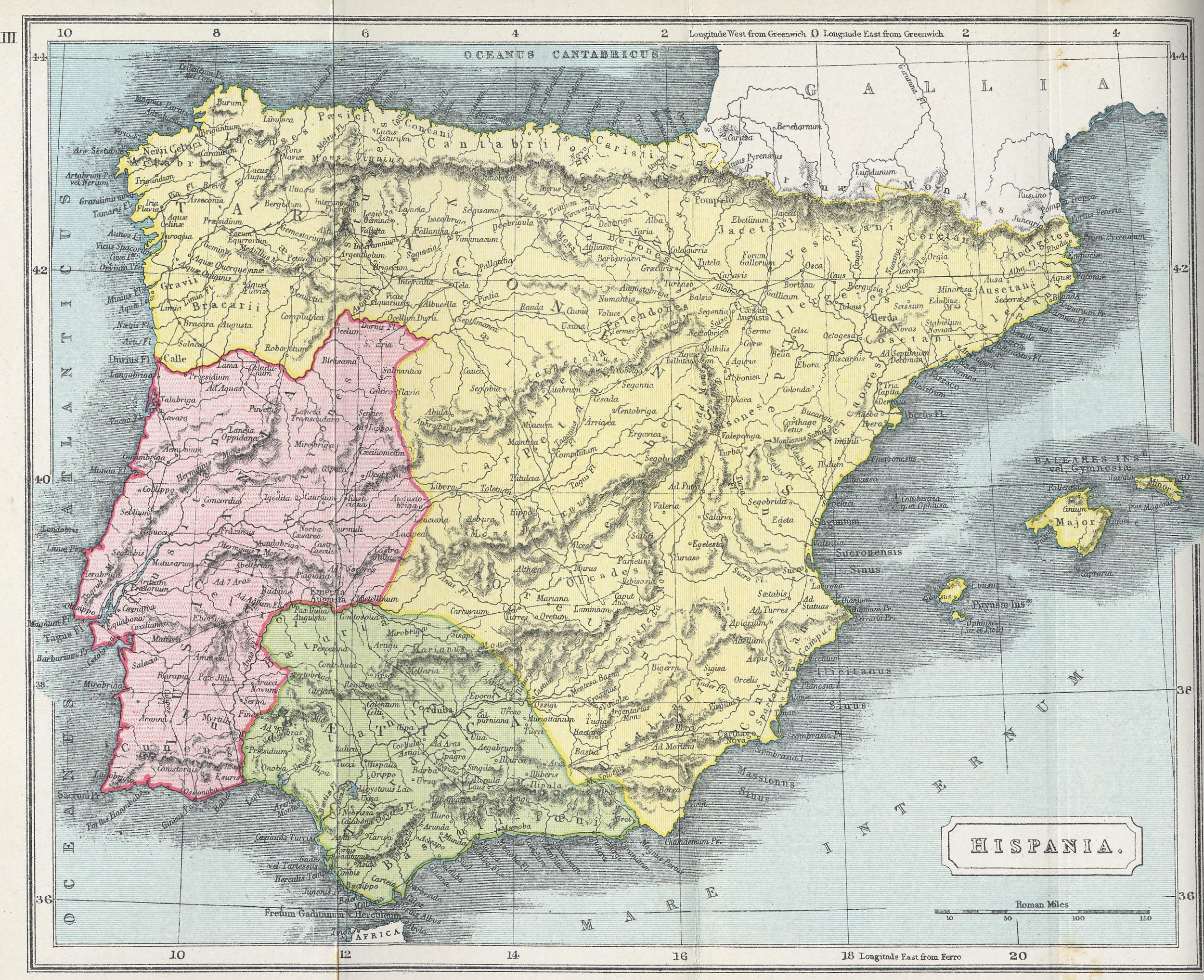 The Atlas of Ancient and Classical Geography by Samuel Butler